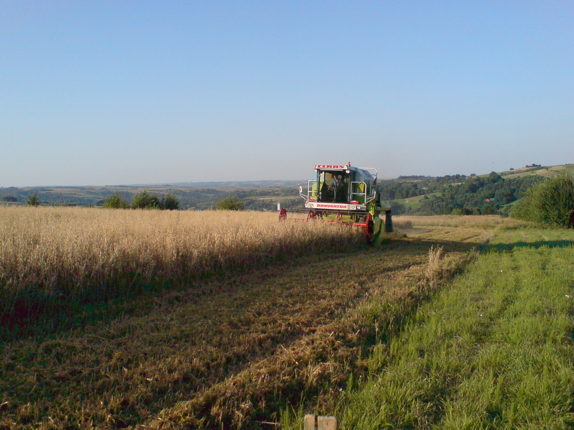 Claas Dominator at oat harvest, Kąkolówka, Poland; Bogdan Huhla